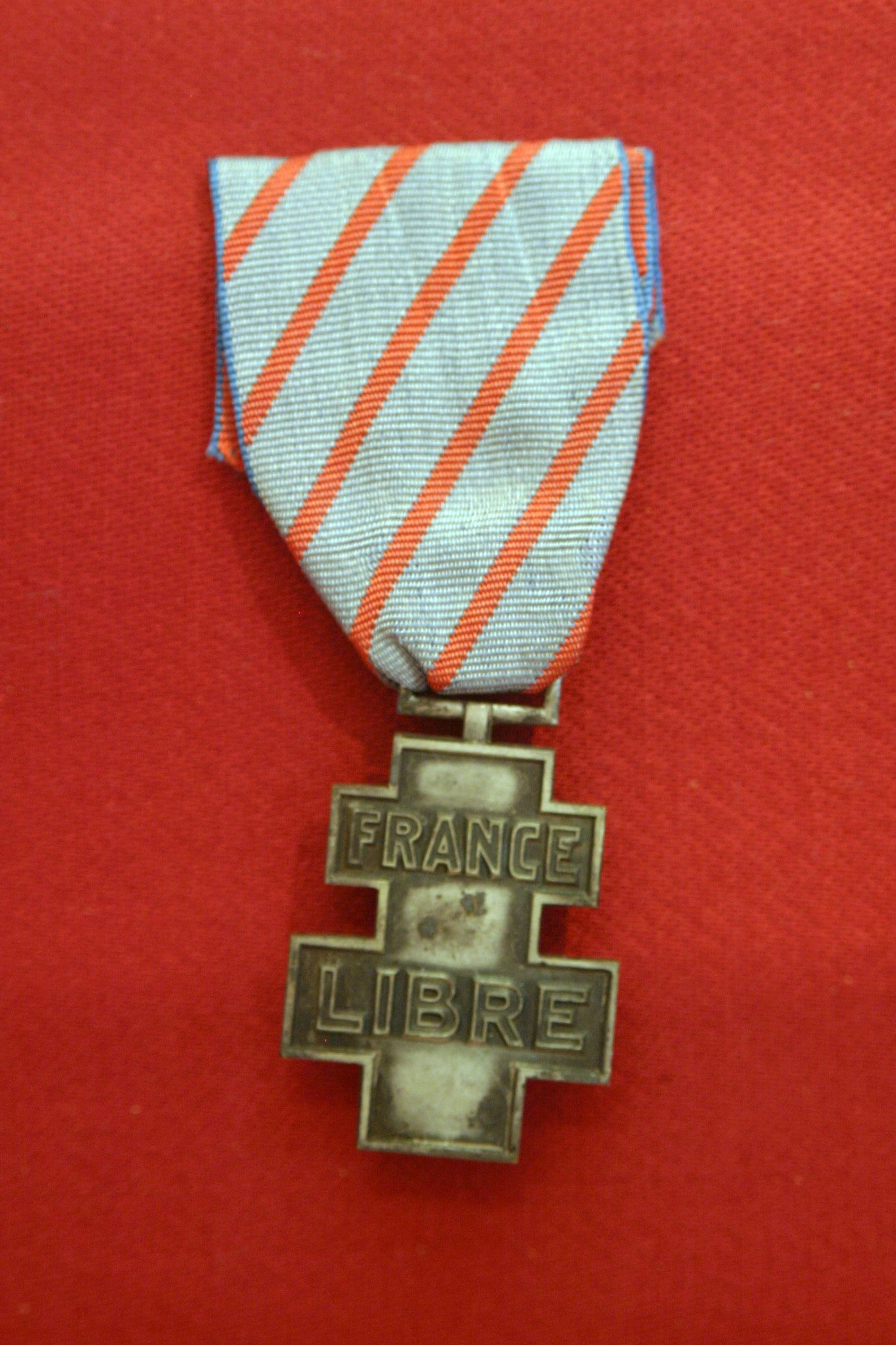 Médaille de la France libre ("Medal of Free France")